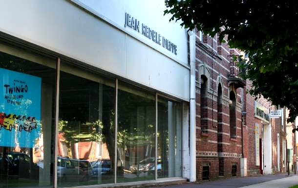 Usine Avenue Pasteur